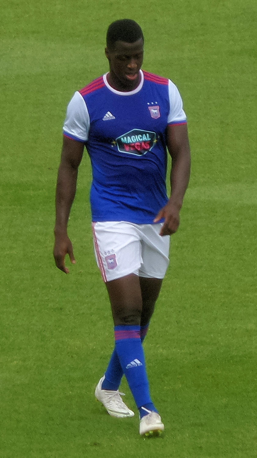 Josh Emmanuel playing for Ipswich Town at Barnet on 21 July 2018